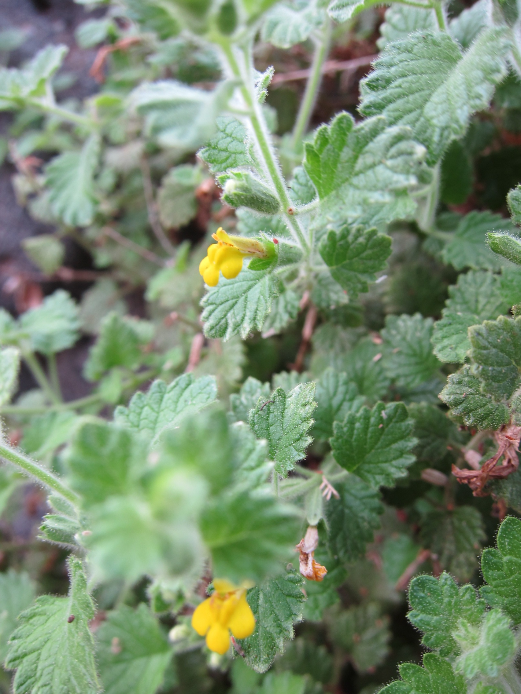 Lindenbergia sinaica Benth. near Tadjourah, Djibouti